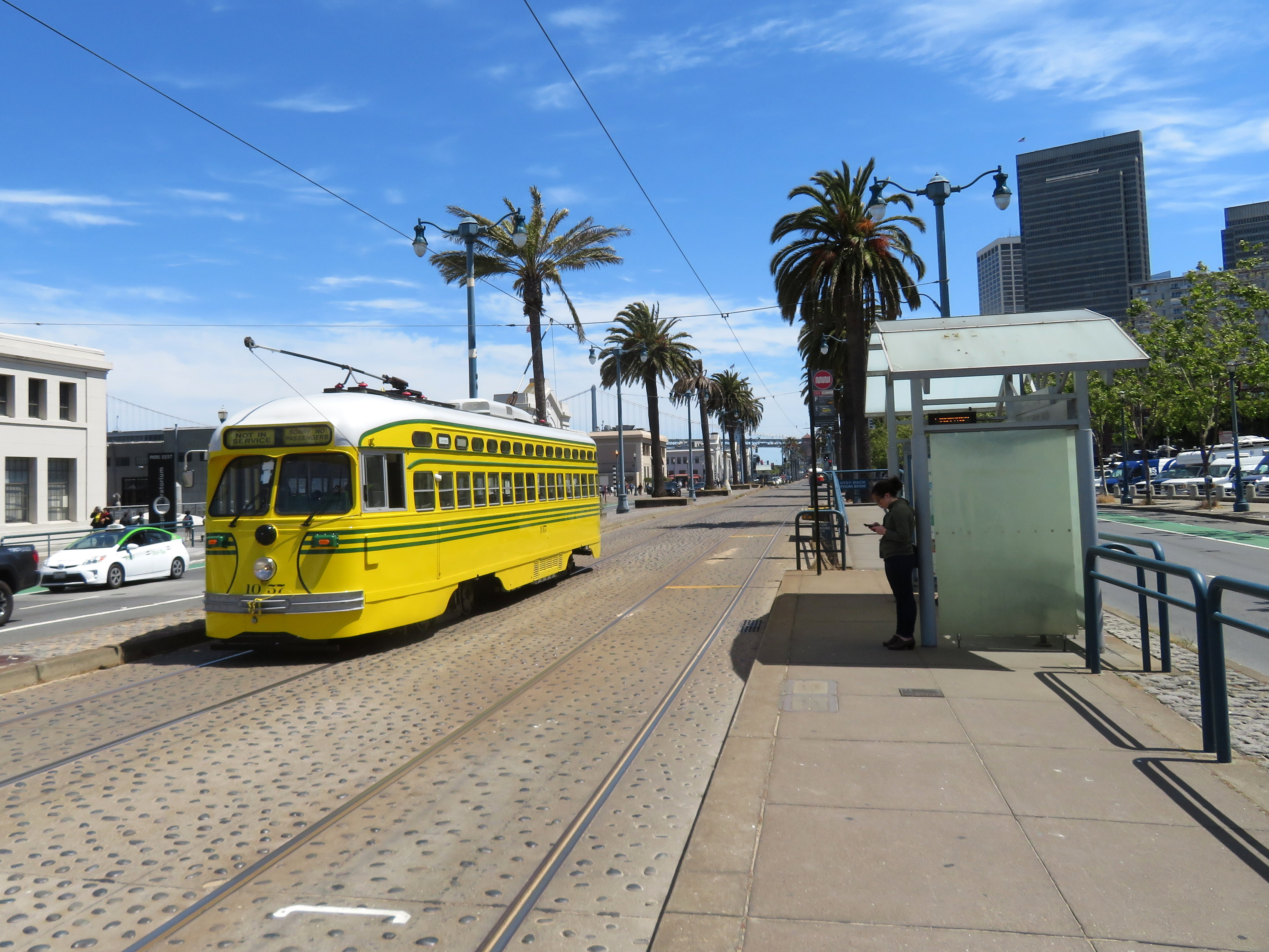 Northbound #1057 passing the southbound platform at The Embarcadero and Green station in May 2019